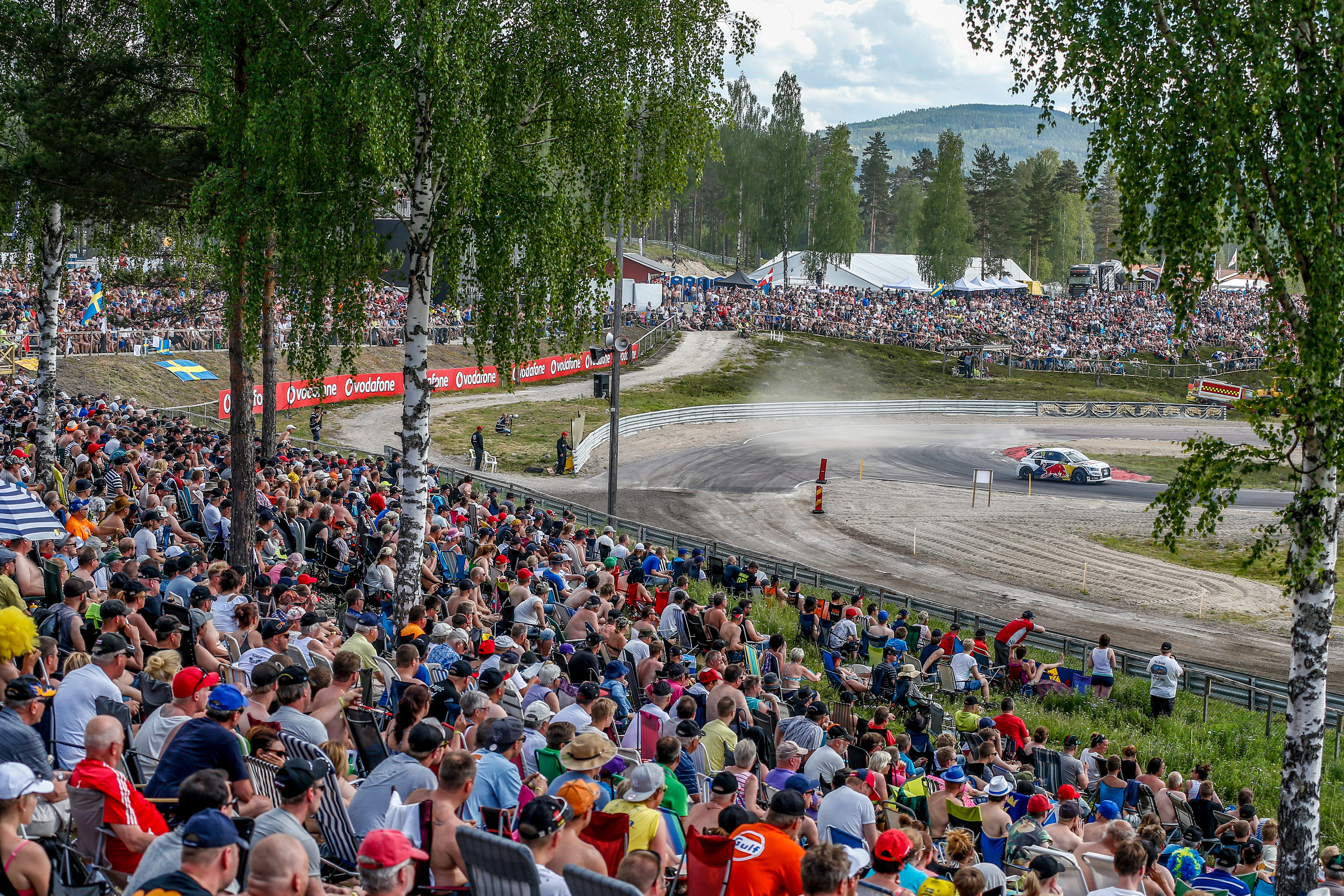 2015 FIA World Rallycross Championship / Round 06, Holjes, Sweden // 3-5 July 2015 // Worldwide Copyright: Colin McMaster/EKS/McKlein